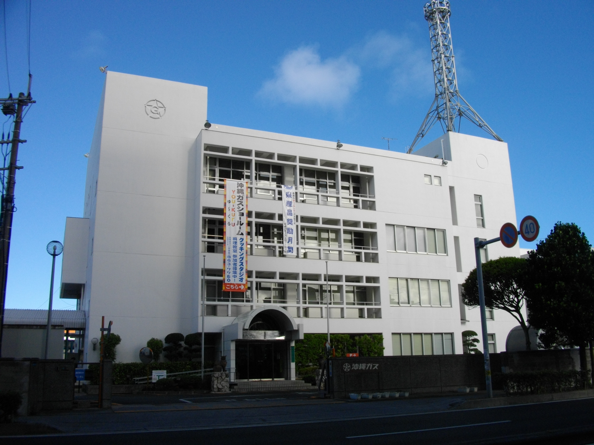 Okinawa Gas Head Office